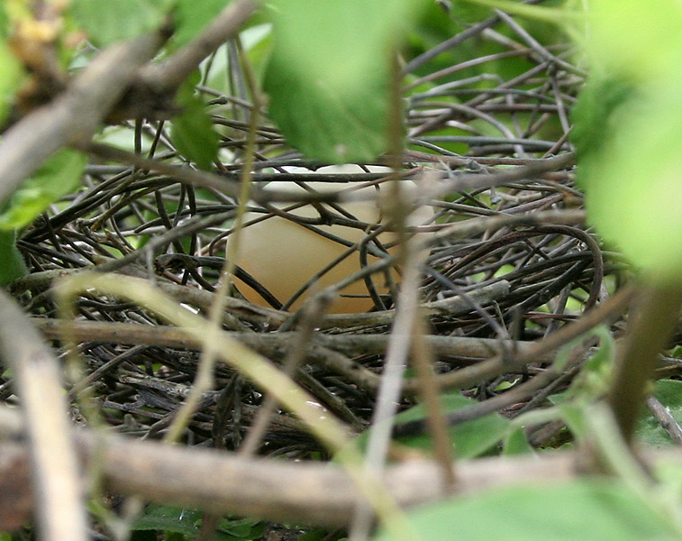 Spotted Dove or Spotted Turtle Dove Streptopelia chinensis- Hindi: Chitroka/Chitta fakhta, Parki, Chitta, Kangskiri, Panduk, Pun: Chini ghuggi, Bi: Kodaya panduk, Gond: Bode, Ben: Chhite ghughu, Telia ghughu, Ass: Pati kopou, Cachar: Daotu, Naga: Inruigu, Kuki: Voh kurup, Guj: Vana holi, Thaliyo holo, Mar: Thipkya kavada, Ta: Pulli pura, Mani pura, Umi pura, Te: Poda bellaguvva, Chukkala guvva, Mal: Chakkara kutta pravu, Aripravu, Kan: Chukki kapota, Sinh: Alu kobeyiya- at Pocharam lake, Andhra Pradesh, India.